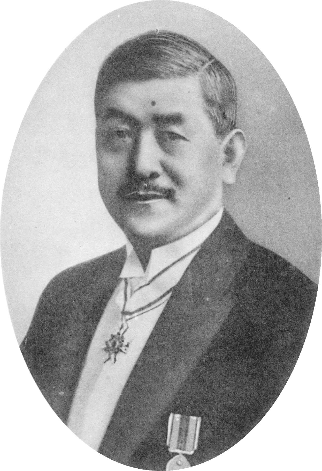 Eizō Yahagi, Dean of the Faculty of Economics at Tokyo Imperial University.